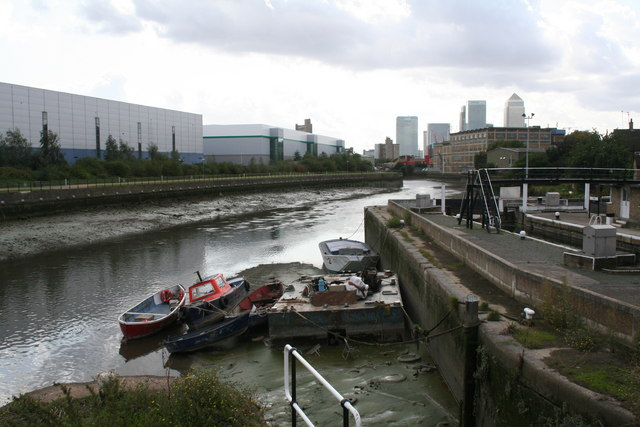 Bow Creek near Bow Locks - eastern London. This shows the head of the Creek at low tide and it is easy to see why it is not navigable at that time. The Creek writhes like a demented serpent, and it is long way by water to the Thames. Excellent views of Bow Creek can be had from the Docklands Light Railway between Blackwall and Canning Town. Very few boats use it now. However, it is said that certain heavy parts required for the 2012 London Olympics are being brought in by water this way: apparently they are too large for Limehouse Cut.